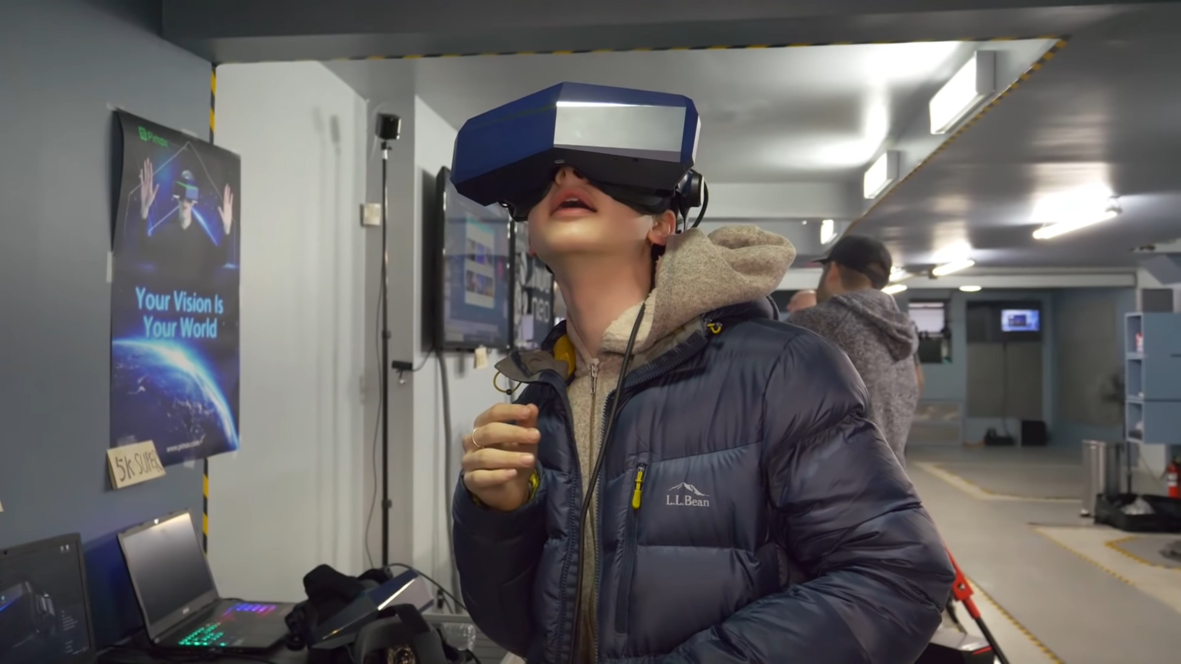 User is experience the latest 8KX headset.